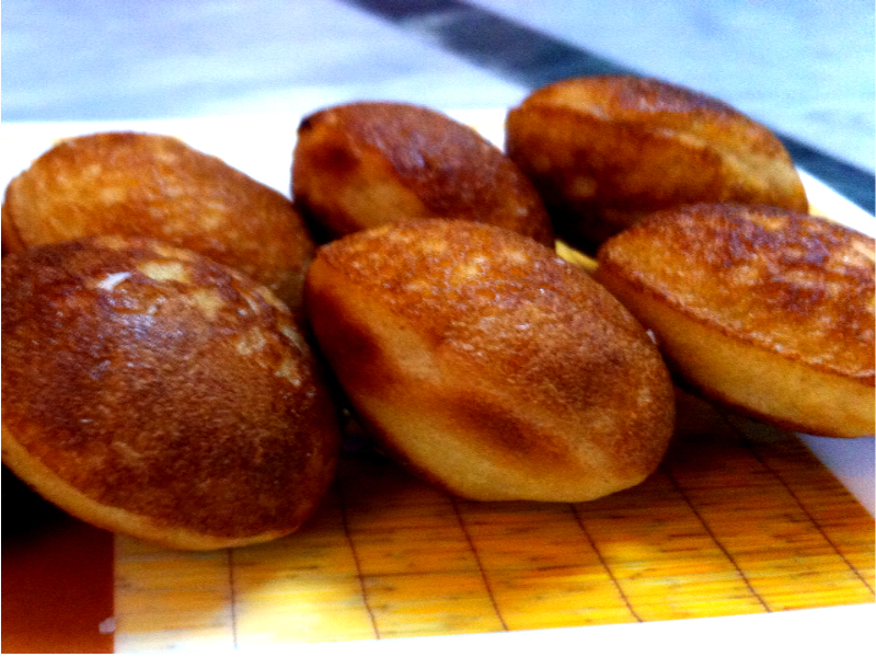 Kandarappam is a traditional snack item which will have its place on almost all important festival or pooja days. Being little bit sweet, it will be a real treat for sweet lovers.